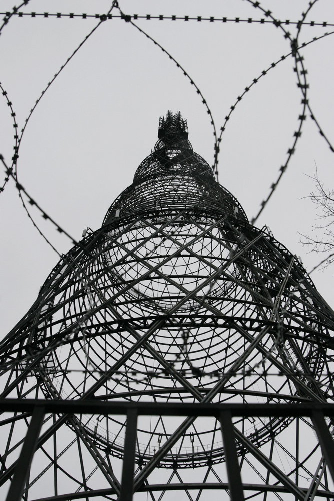 Shukhov Tower